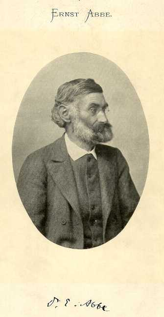 Ernst Abbe from Wikipedia Bild:Abbe.jpg00:46, 22. Apr 2004 . . Necrophorus (16082 Byte)